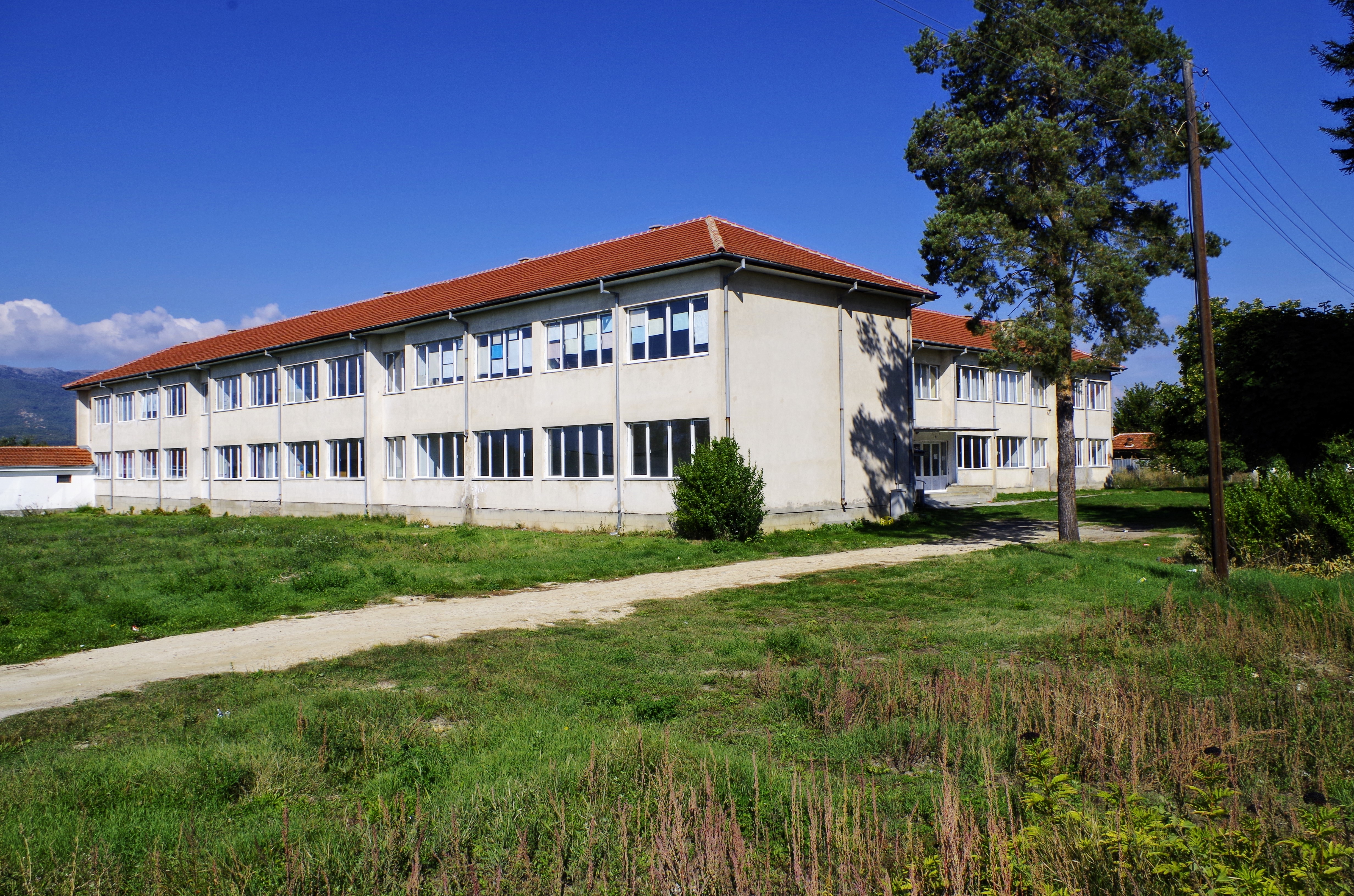 View of the primary school in the village Carev Dvor